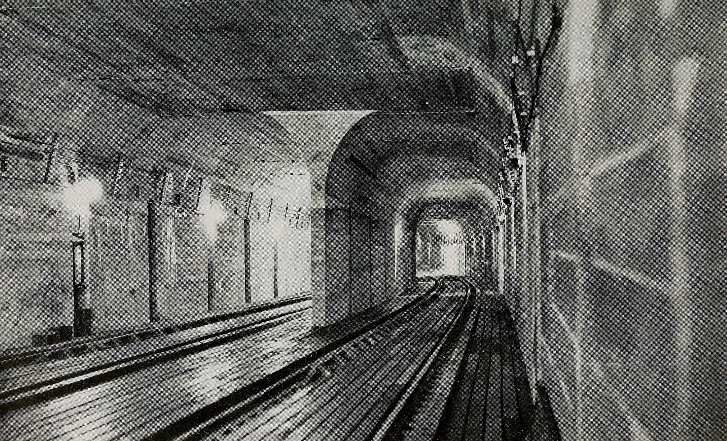 Interior view of the new Commonwealth Avenue subway just west of Kenmore station in 1932